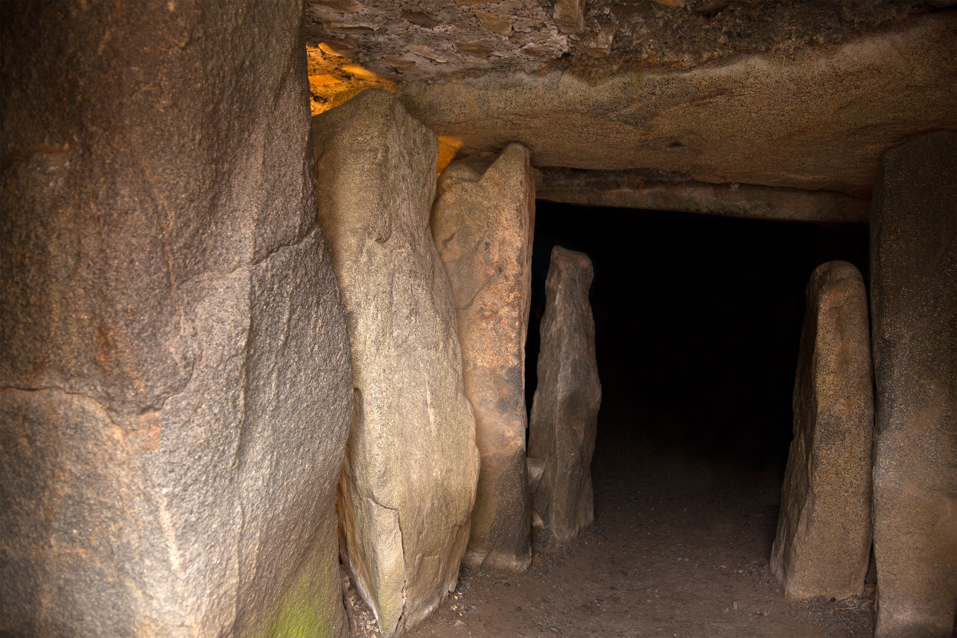 Le Dehus, prehistoric passage grave, Guernsey